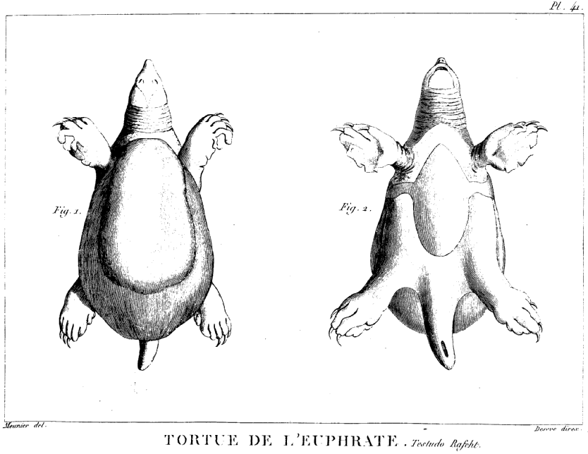 The Euphrates softshell turtle, Rafetus euphraticus, which Olivier called Testudo Rafcht (and which was commonly misread as Testudo Rafeht).